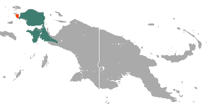 Western Long-beaked Echidna (Zaglossus bruijni) range (green — extant, orange — possibly extinct)